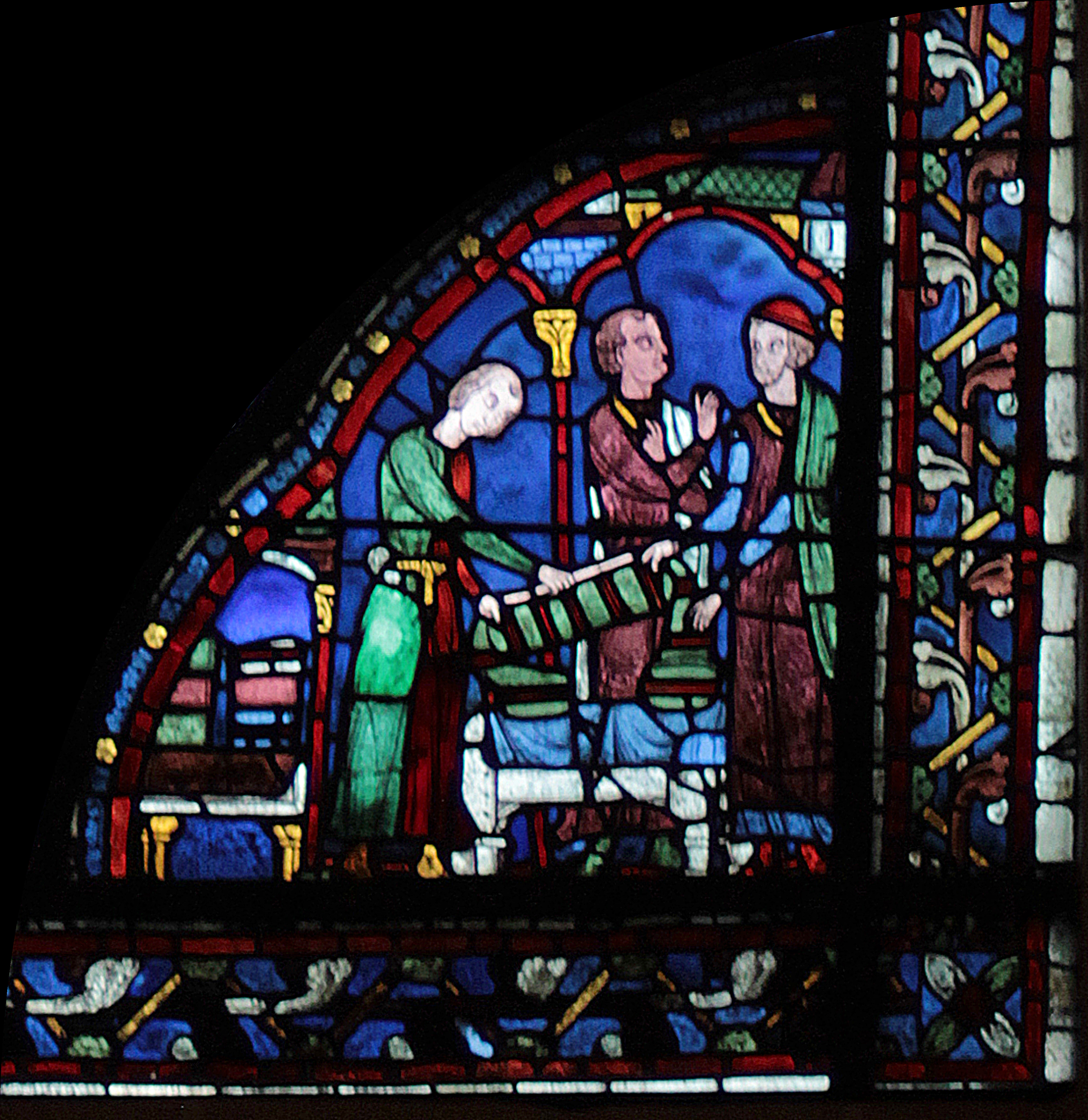 The Life of Saint James the Greater (ambulatory, bay 5).